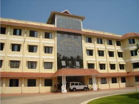 GEC Kozhikode Administrative Block